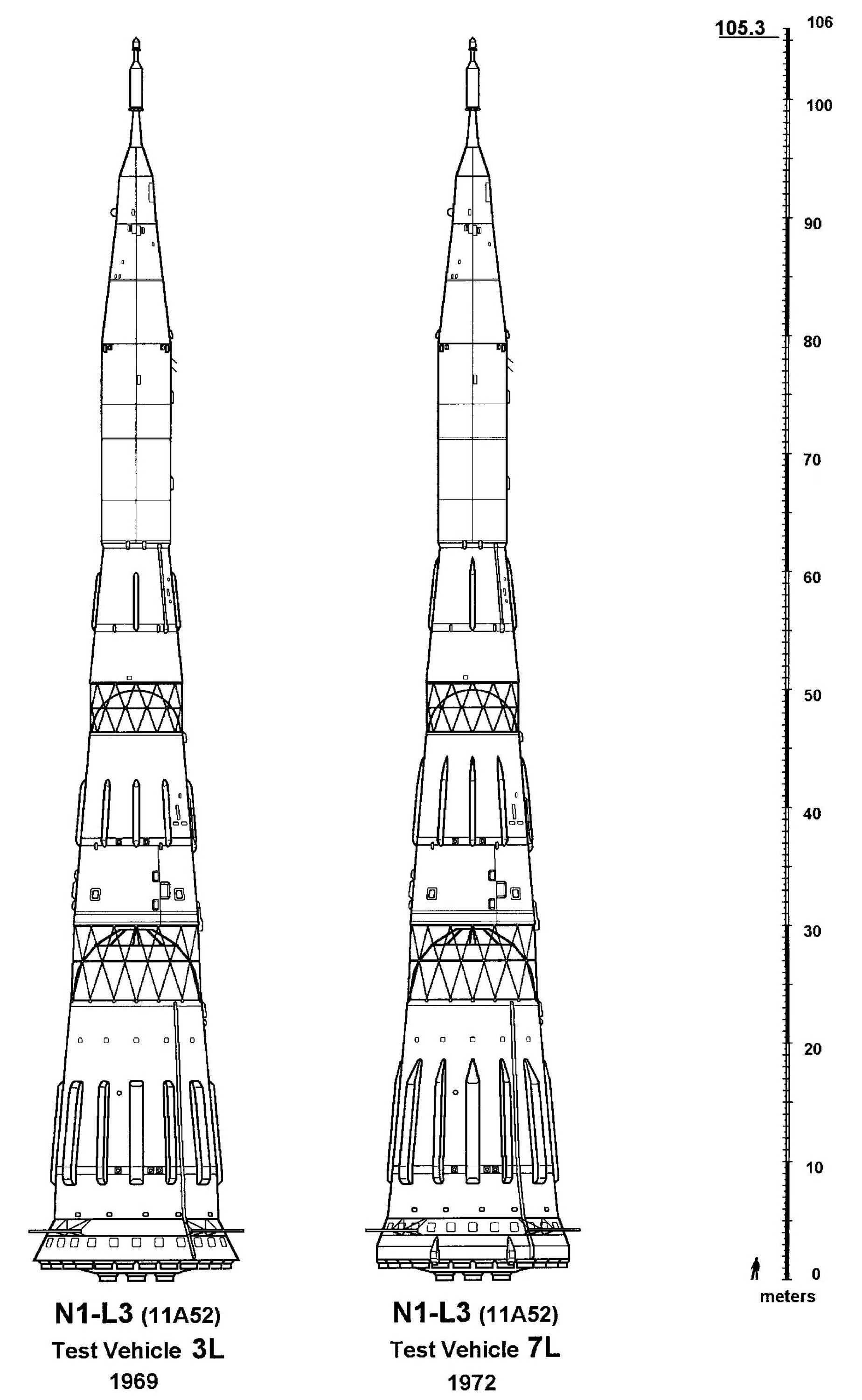 On the left is the early test variant of the Soviet N1 rocket as originally conceived in the mid-1960s. On the right is a slightly modified version designed in the early 1970s. The main external differences were in the fairing at the bottom of the first stage and the length of the vertical conduits on the first and second stages.